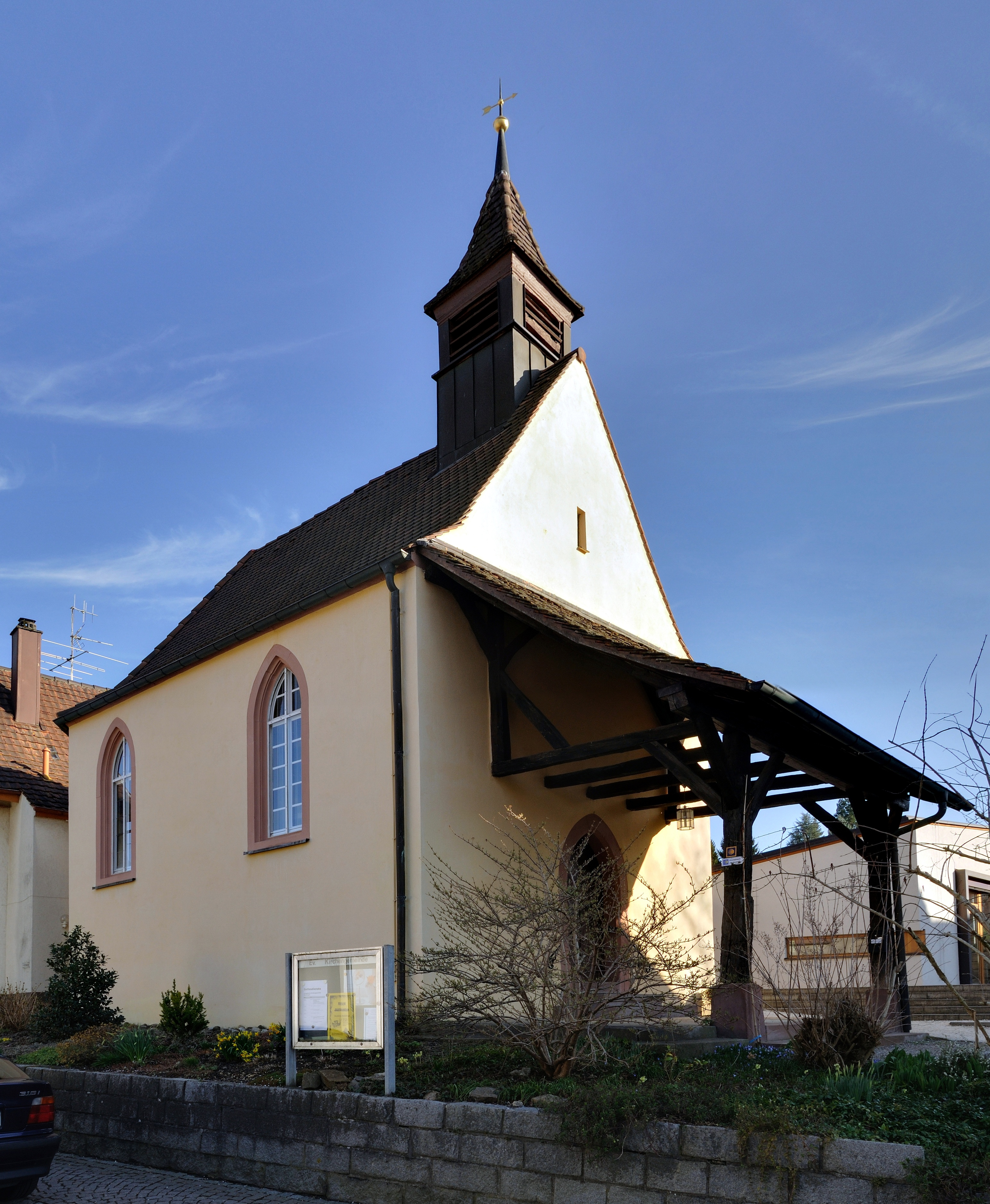 Rümmingen: Protestant Church